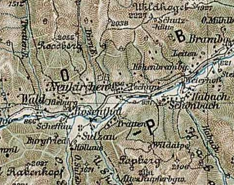 3rd Military Mapping Survey of Austria-Hungary - Bruneck; detail: Neukirchen (am Großvenediger)